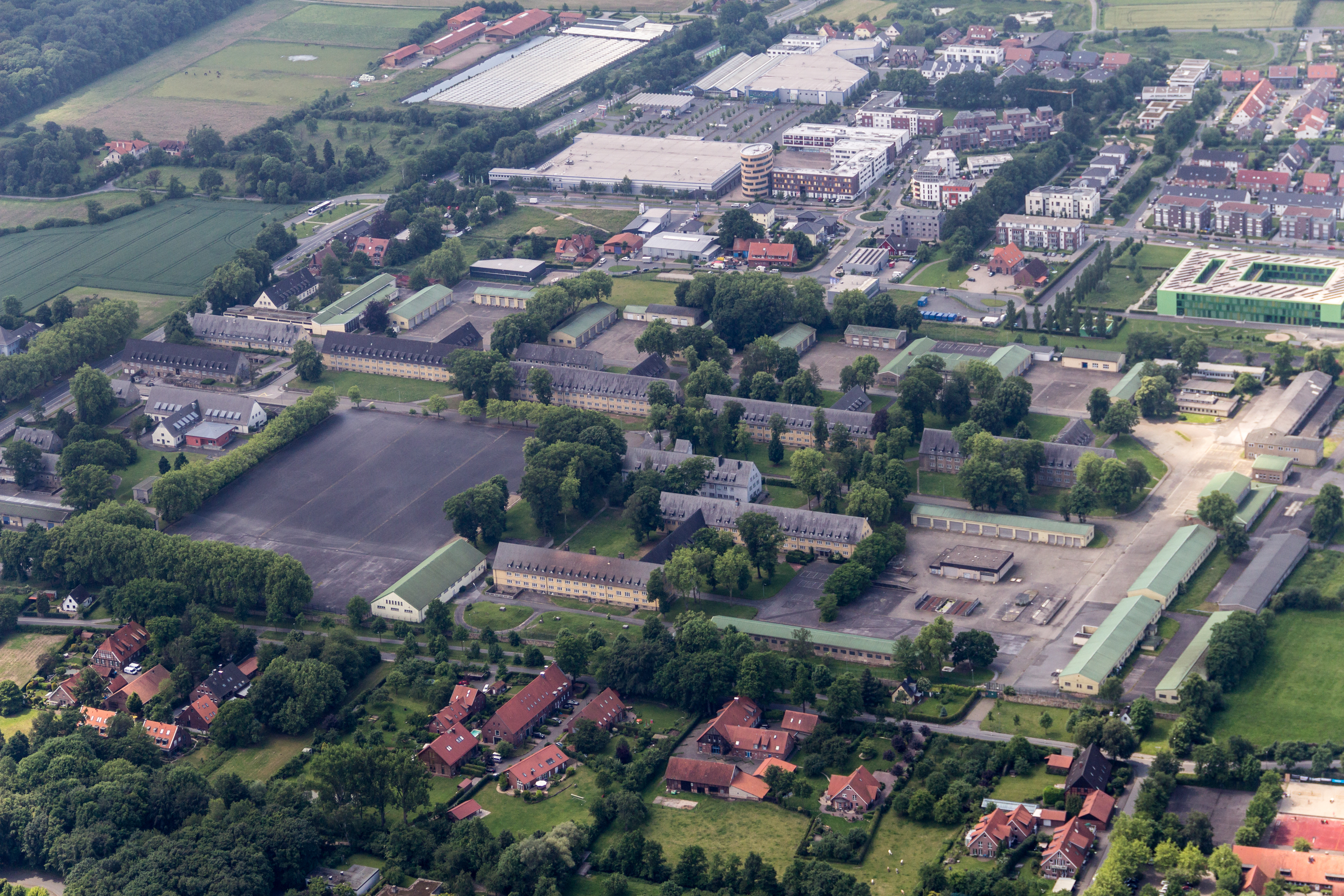 Gievenbeck, Münster, North Rhine-Westphalia, Germany